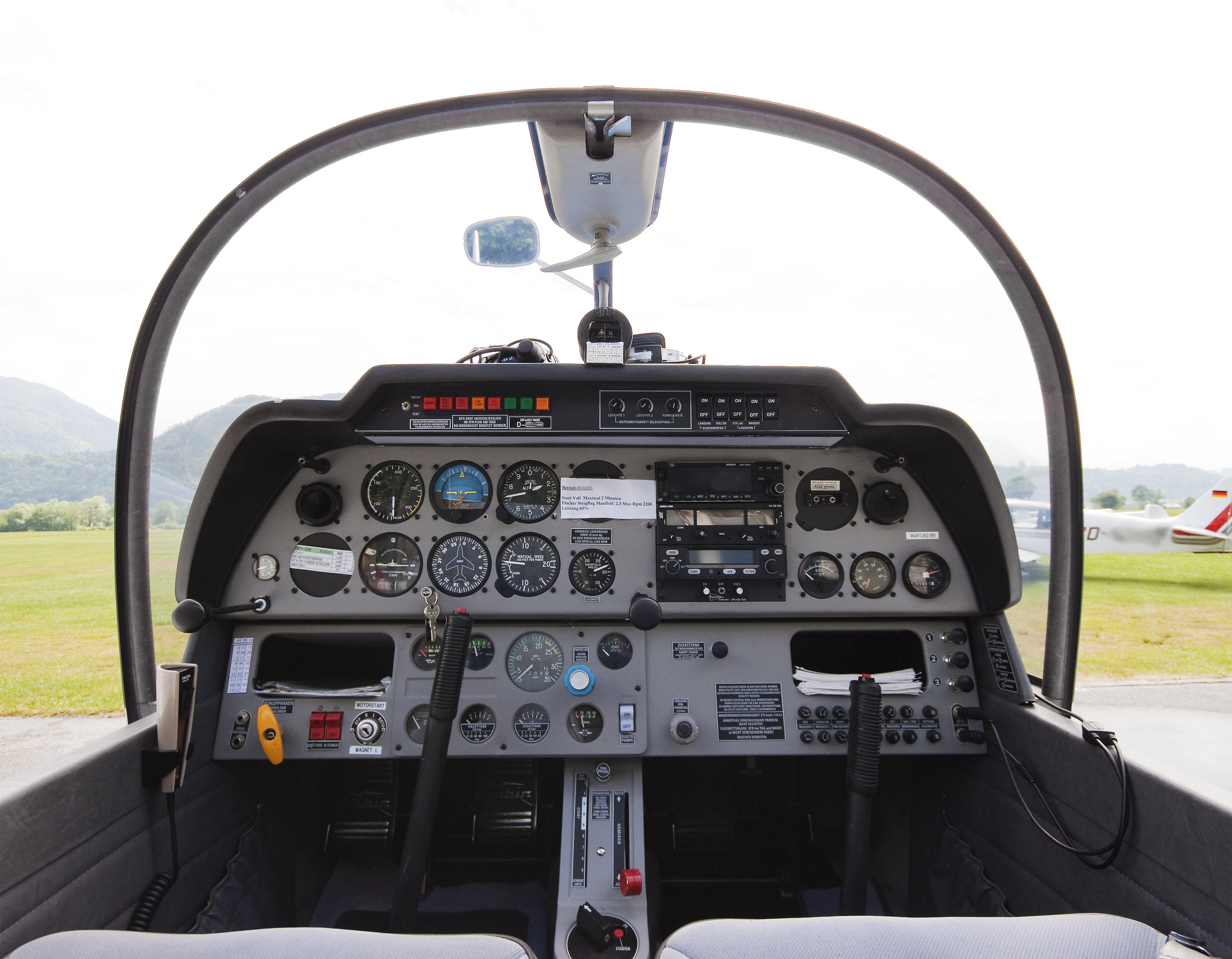 The Cockpit of a Robin DR400/180R.